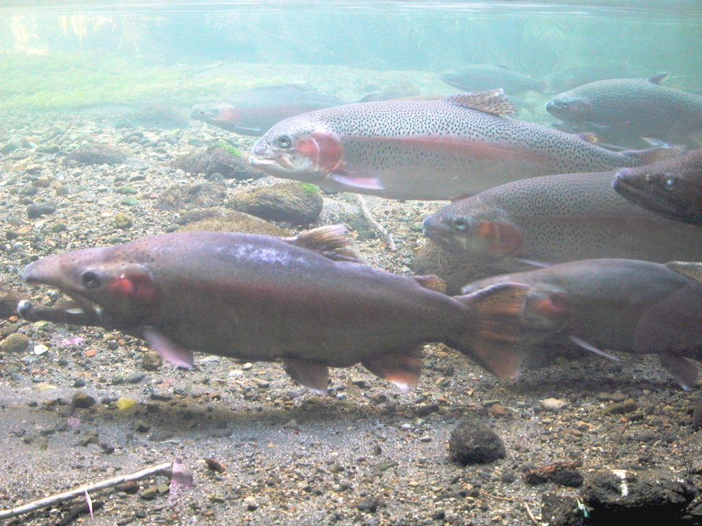 Rainbow trout at Tongariro National Trout Centre, New Zealand.